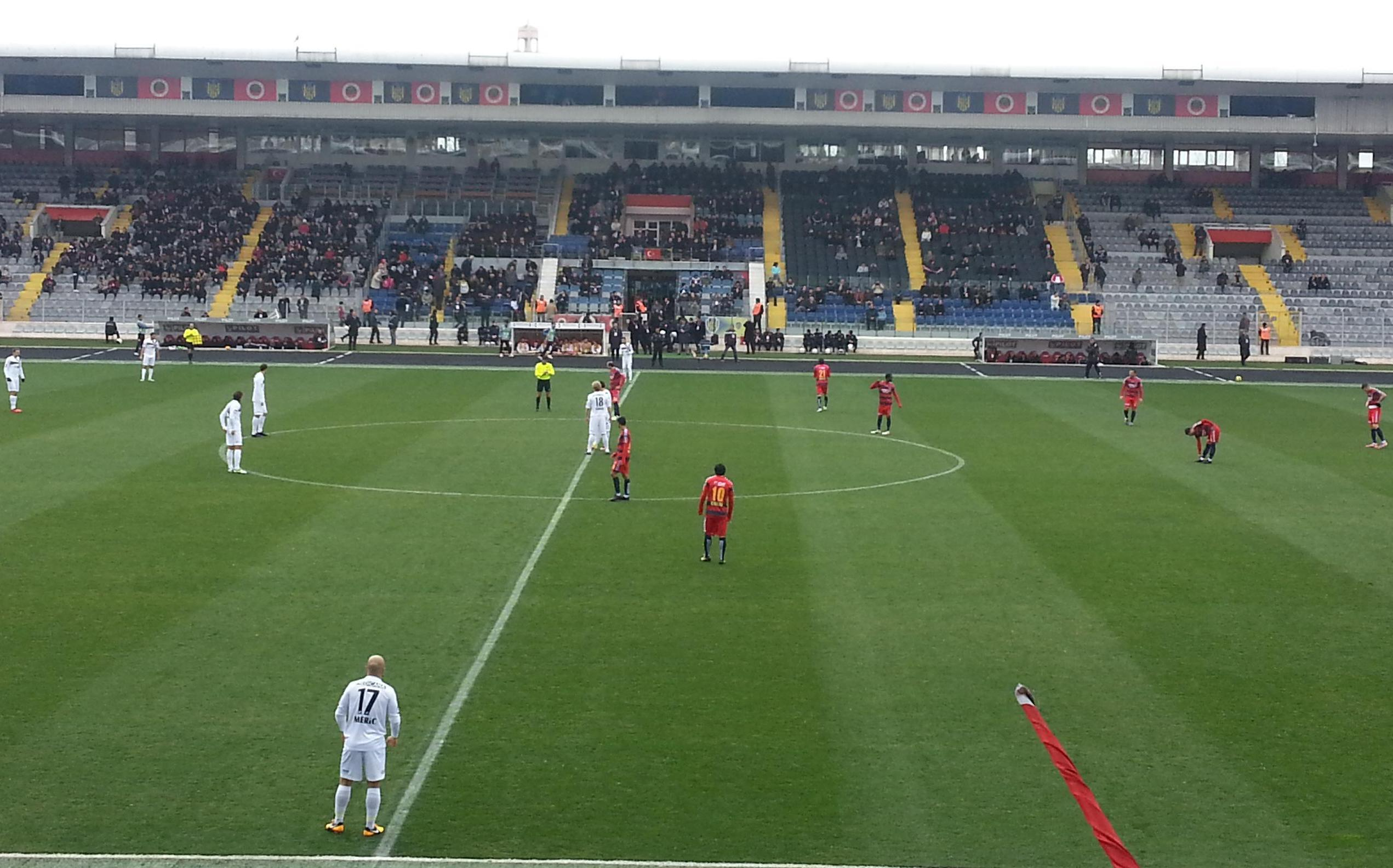 Turkish Super League match: Gençlerbirliği 3-1 Mersin İdman Yurdu